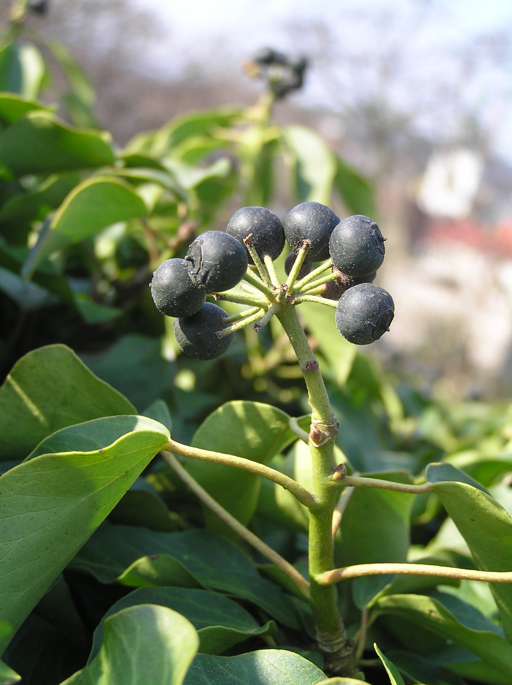 Hedera helix, Choceň, Czech Republic